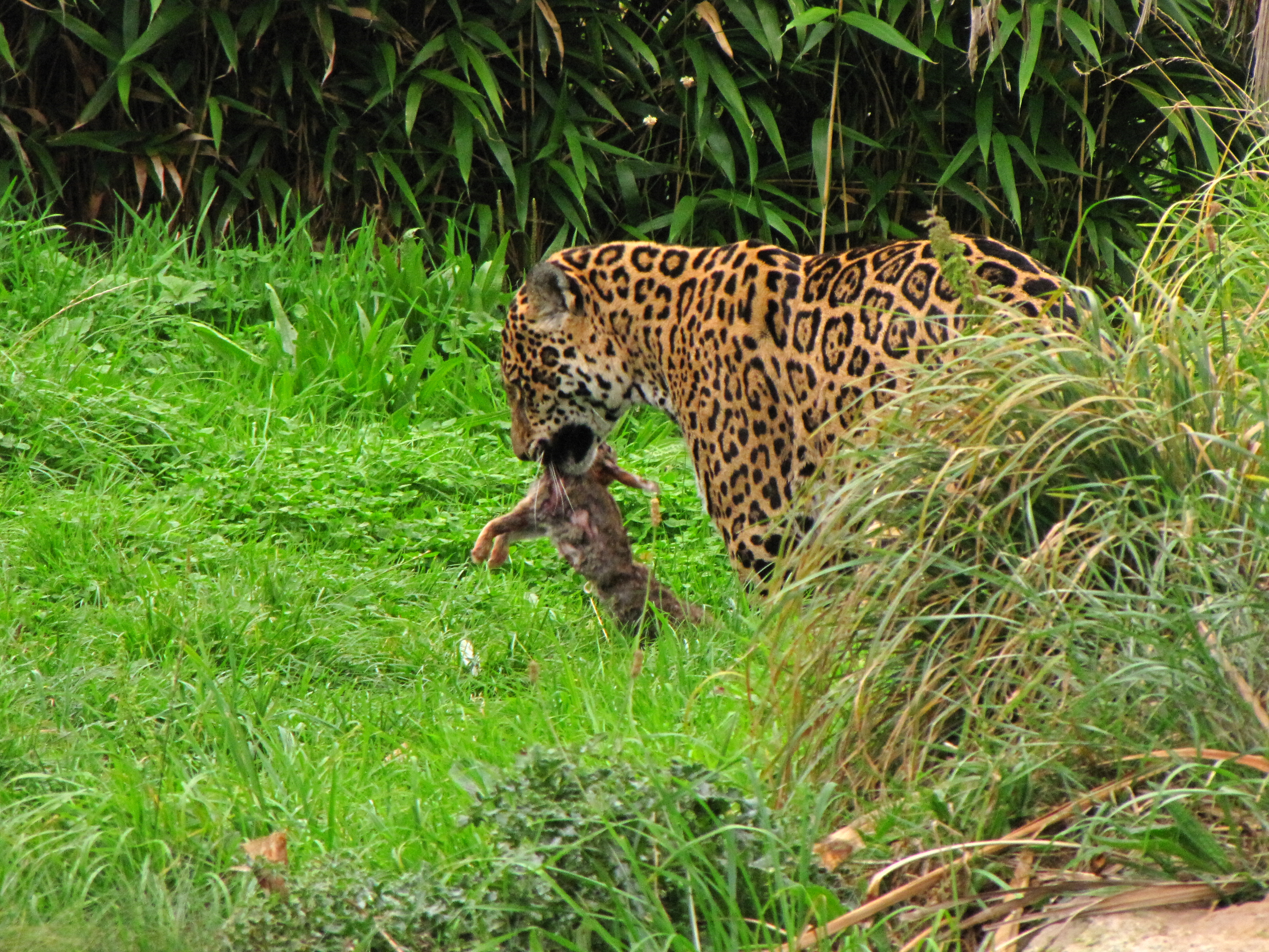 Jaguars (Panthera onca) at Chester Zoo, Cheshire, England.